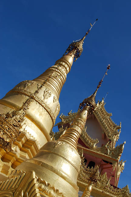 Dharmikarama Burmese Temple at Burma Lane.